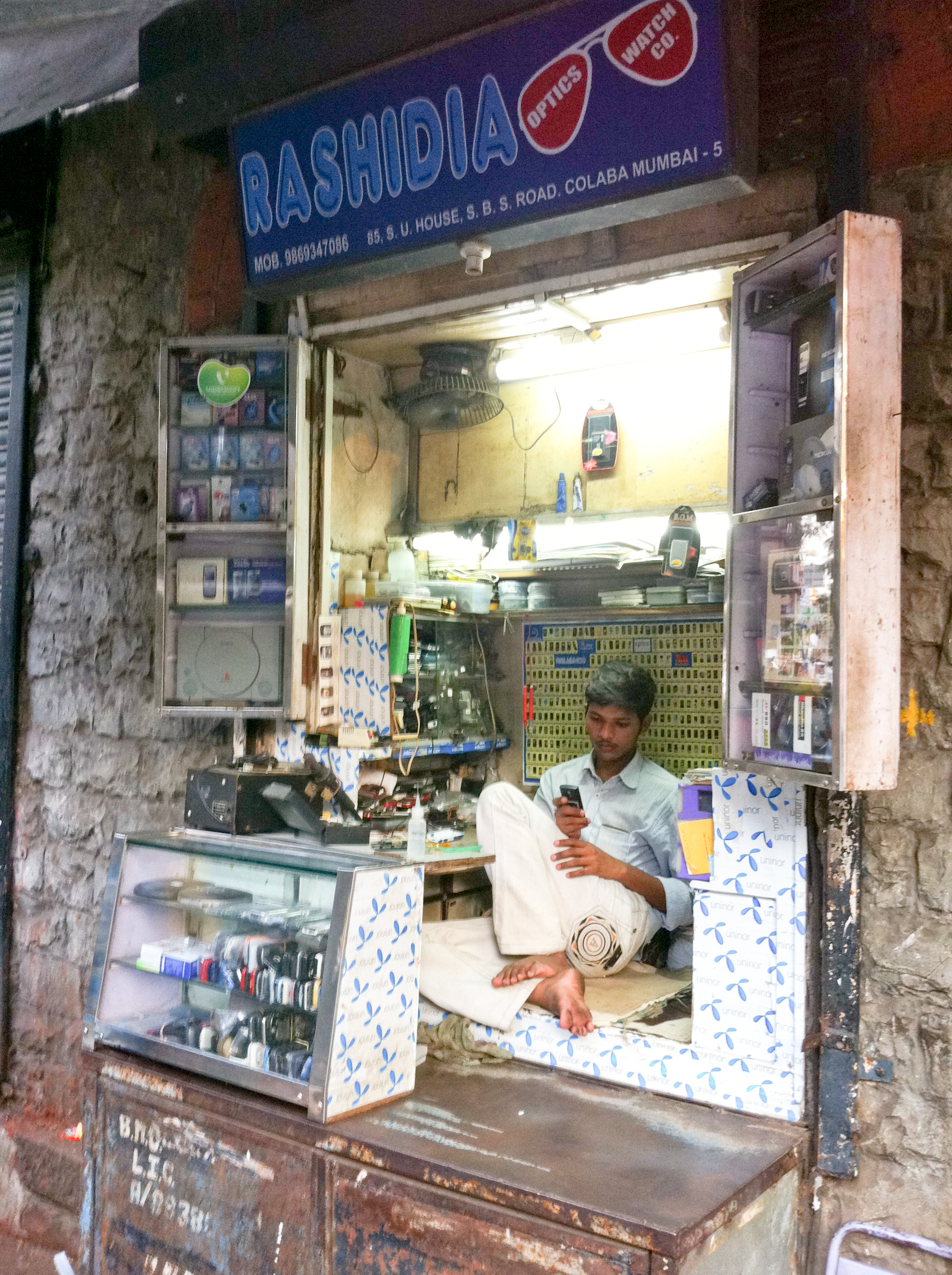 A Kiosk in Mumbai, India that services cellphones